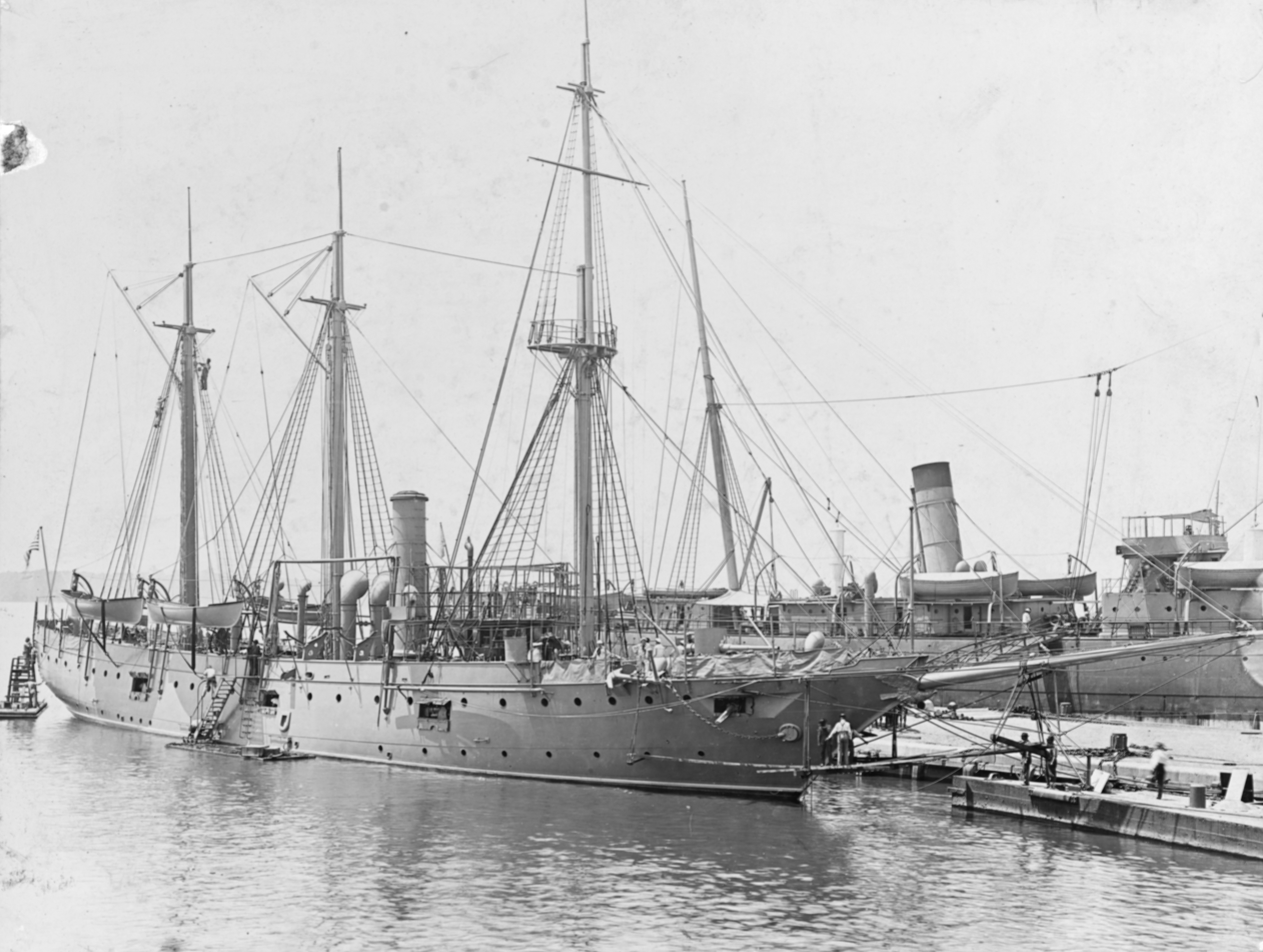 USS Princeton. Photographed in 1898, probably when first completed.